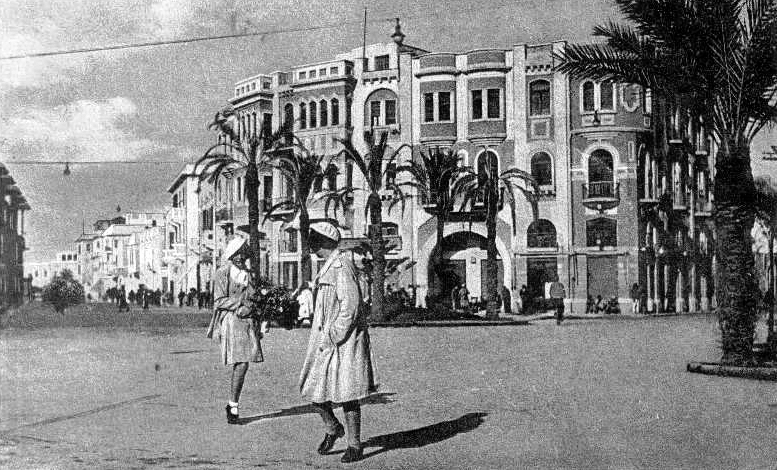 Piazza Cagni during colonial rule in Benghazi (now known as Maydan sl-Shajara). See also (an image of the square from roughly the same angle in 2013): File:Maydan Shajara 2013.jpg.